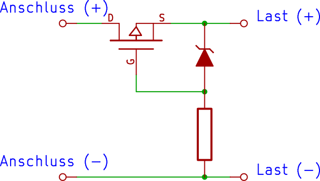 P-channel Mosfet Verpolungsschutz